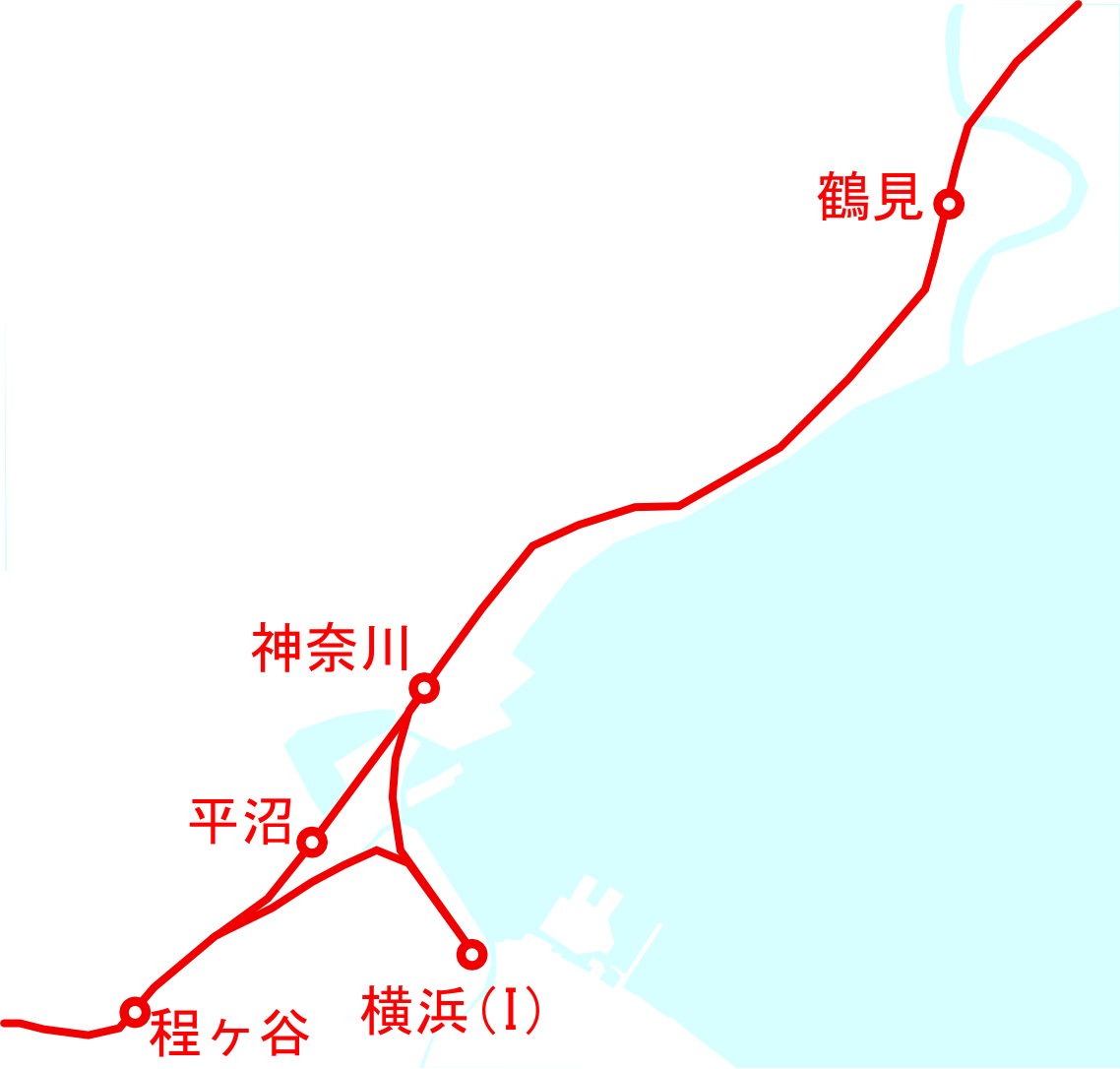 Railway route map around Yokohama port in 1906. New lines / stations since previous map are shown in red. Not changed lines / stations are shown in black. Disused lines / stations are shown in gray. Only national railway network is shown in this map. At this time, Yokohama station had deadend track layout.